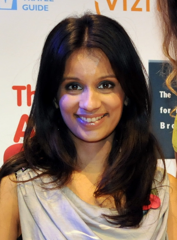 Sonali Shah. AIB Childrens BBC Newsround Afghan 2